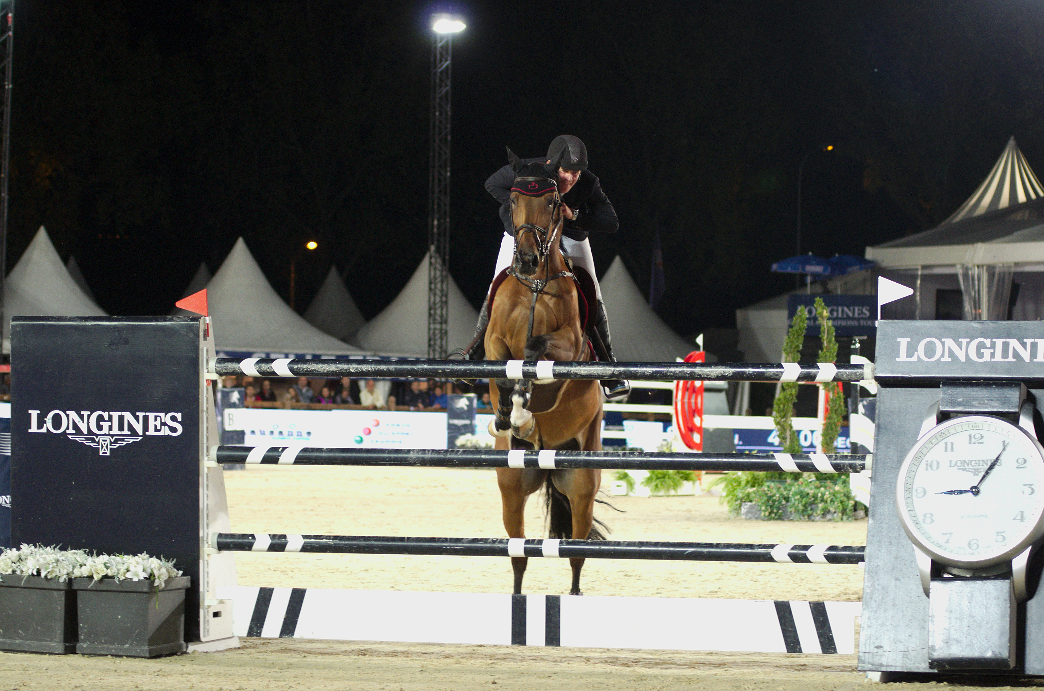 2013 Longines Global Champions - Lausanne - 13-09-2013: Jos Verlooy / Domino